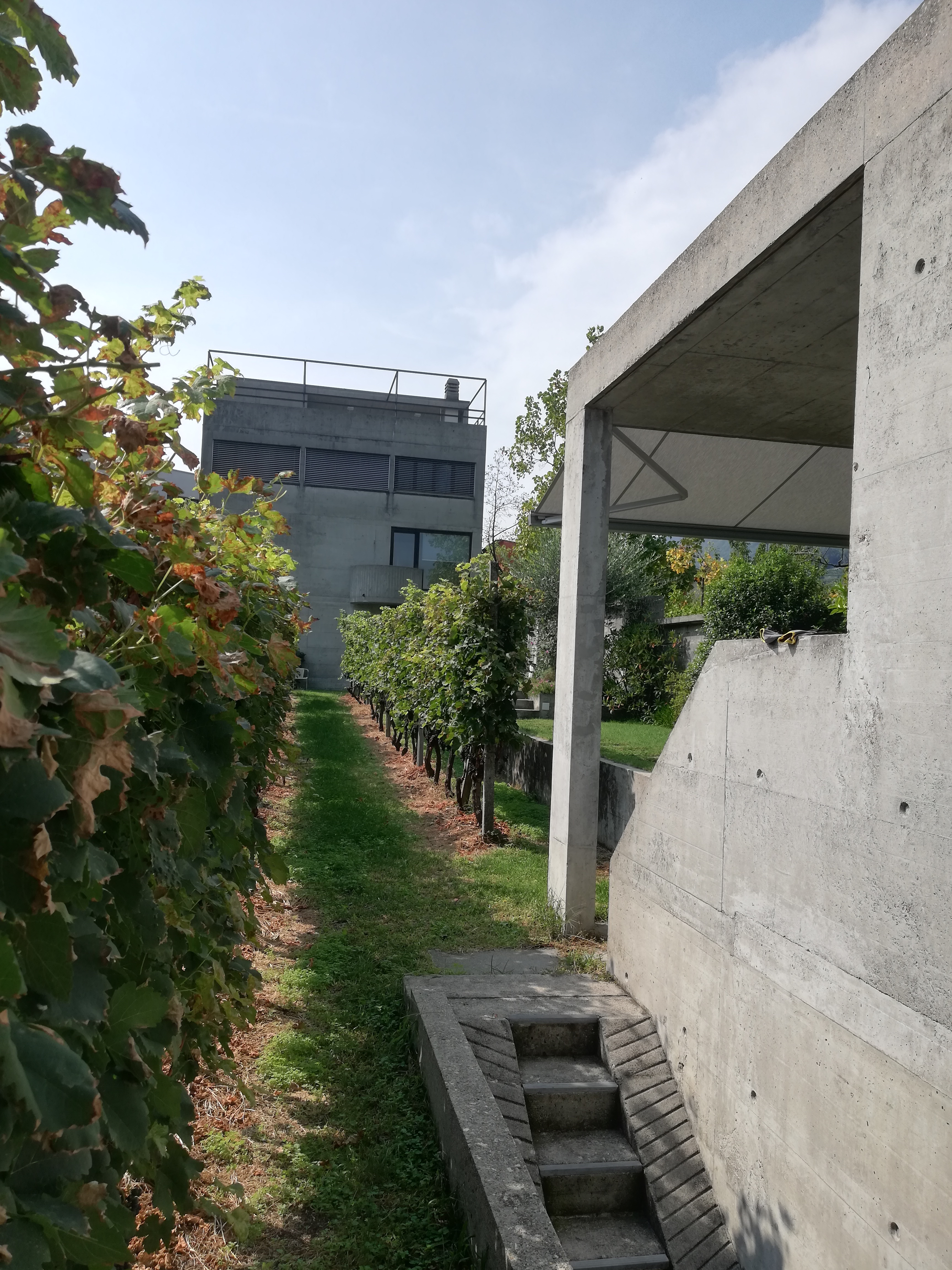 Casa Guidotti in Monte Carasso, Swizerland, private house by Swiss architect Luigi Snozzi (project year: 1984)